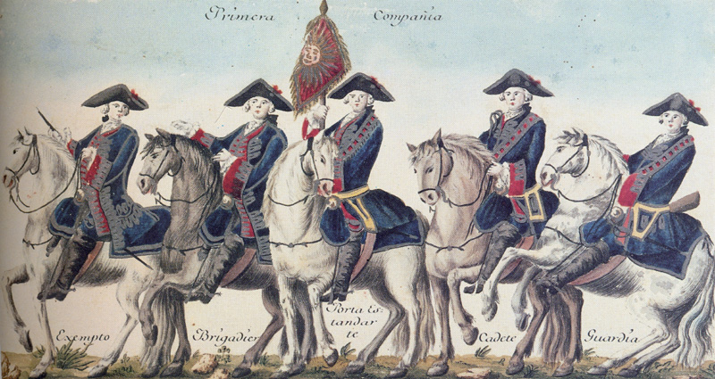 Soldiers of the 1st Company of the Royal Guard Corps during the reign of Philip VI ~ Anne S. K. Brown Military Collection